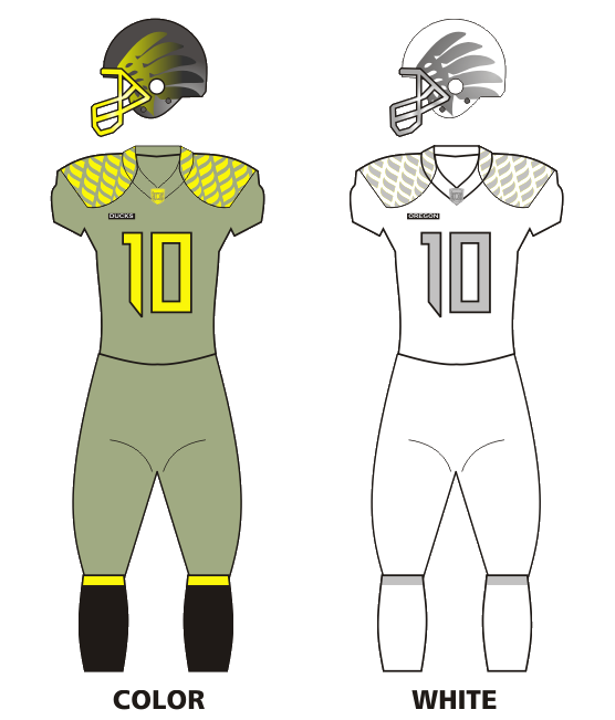 Oregon Ducks uniforms released for the 2013 spring game. These uniforms were conceived as a tribute to the US troops.